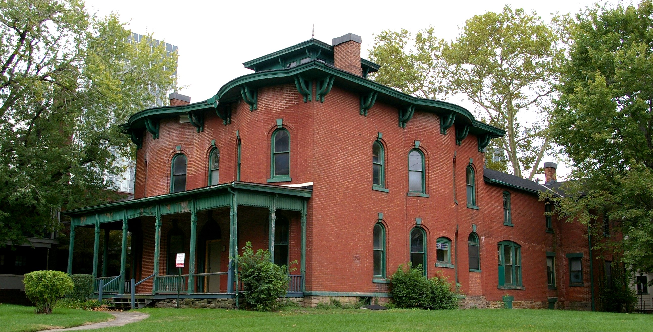 A view of the Justus L. Cozad House, more commonly known as the Cozad-Bates House at 11508 Mayfield Road, in Cleveland, Ohio. The structure, built in 1853, is listed on the National Register of Historic Places. Coordinates